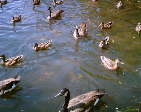 Aquatic birds at Belmont Lake State Park